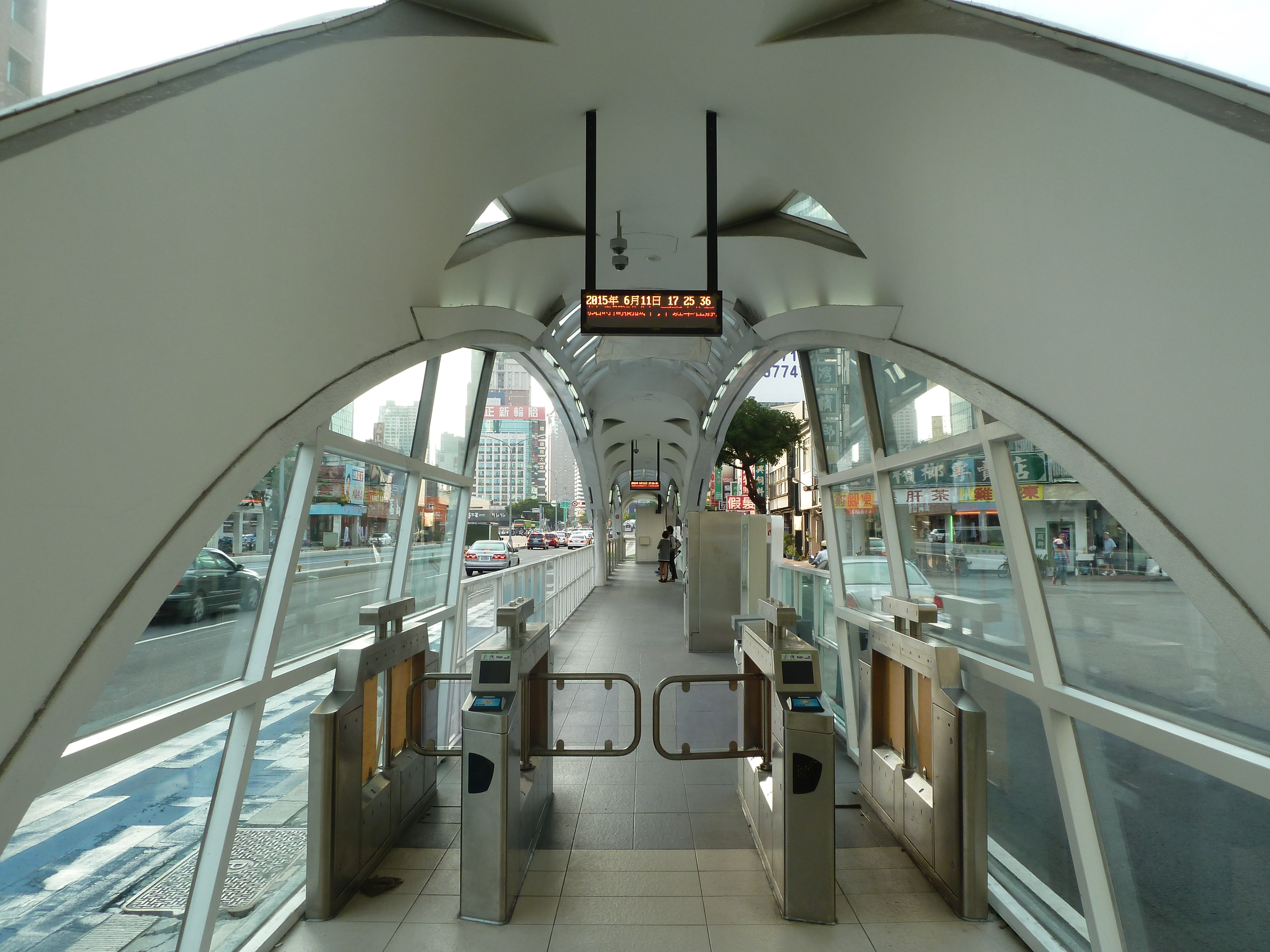 Taichung BRT Qie Dong Jiao Station